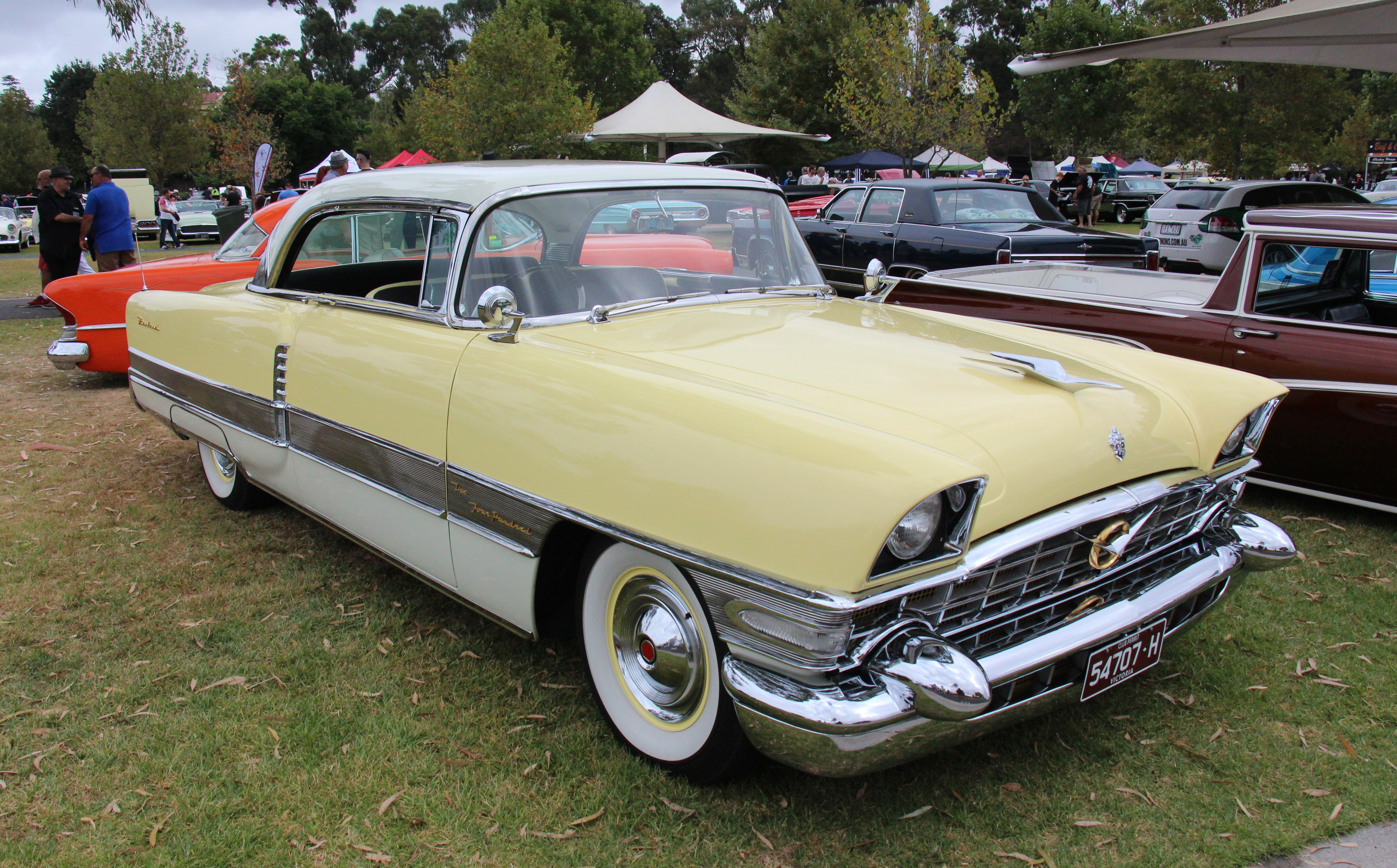 Packard was a luxury car built in America from 1899-1958. The Clipper was available on and off from 1941-57. This generation, the 1953-56 models were available in Special and Deluxe trim models, as 2 and 4 door sedans. For 1955, Packard became a marque in the newly formed Studebaker-Packard Corporation, the Clipper got a refreshed look. For 1956, available was; The Clipper Custom 4 door Sedan, Clipper Deluxe 4 door Sedan, the Clipper Custom Constellation 2 door Hardtop and the Clipper Super 2 door Hardtop and 4 door Sedan. Upmarket models were the Patrician 4 door Sedan, Executive 2 door Hardtop and 4 door Sedan, Caribbean 2 door Hardtop and Convertible and this car, the Packard 400 2 door Hardtop. The 1955/56 Packard 400 featured two tone paint, 'The Four Hundred' in gold anodized script adorned the band between the front wheel well and door edge. Engine; 285hp 374 cu in V8